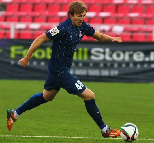 Yevgeni Lutsenko